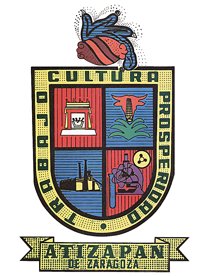 Escudo del Municipio de Atizapán de Zaragoza, Estado de México, México